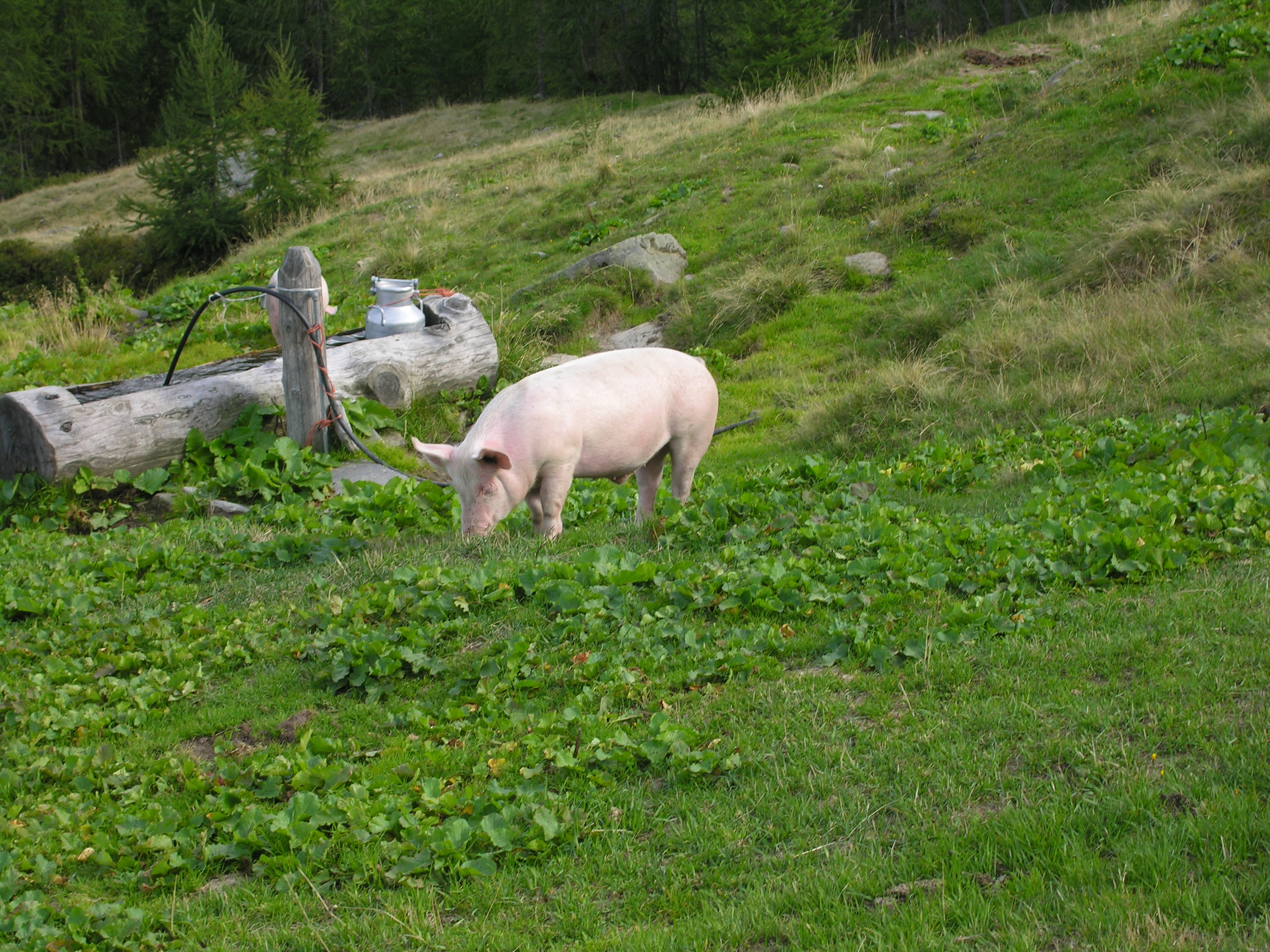 Extensive farming in the farm Alp Sfi, near Cimalmoto, Switzerland